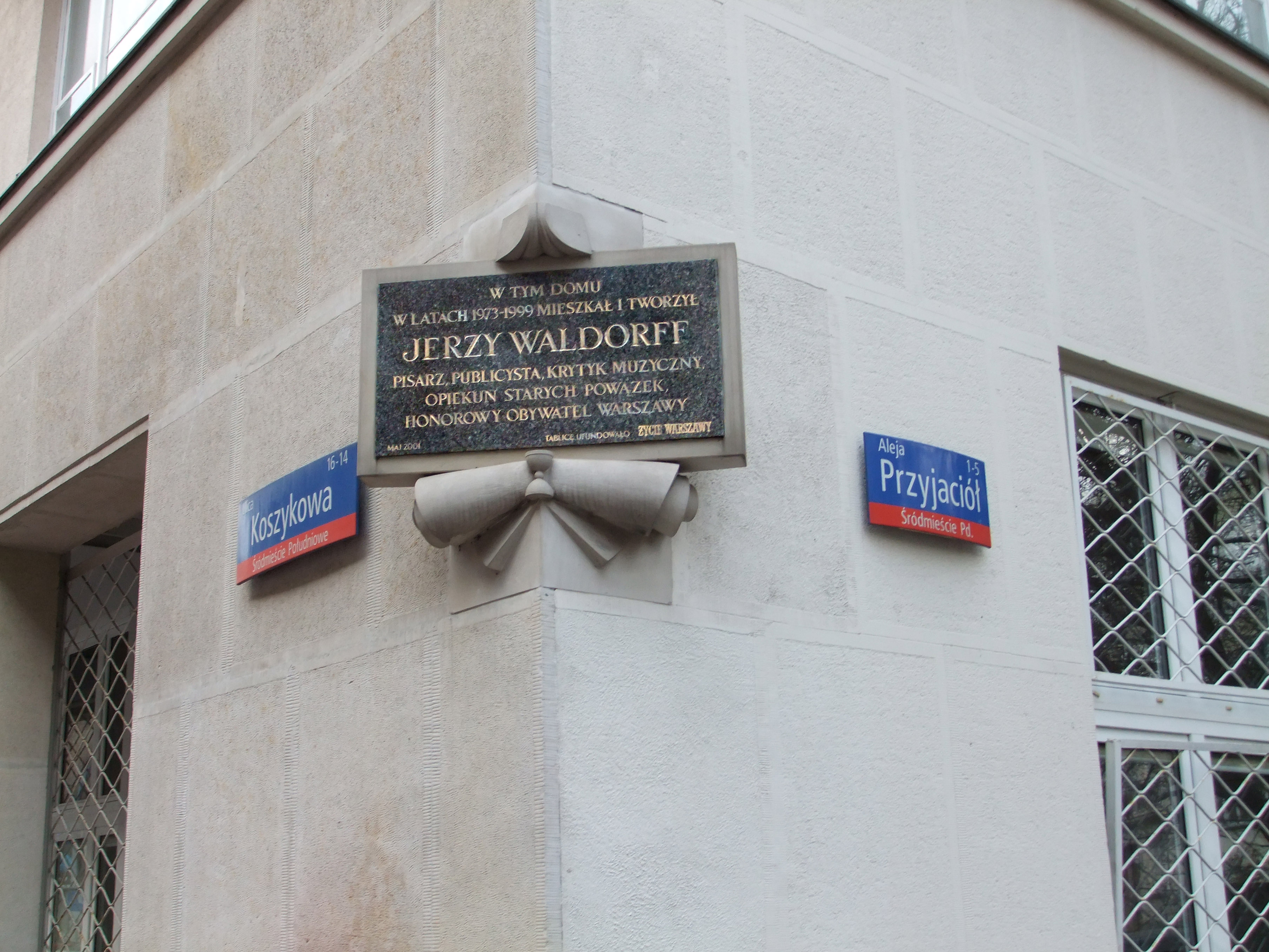 A plaque dedicated to Jerzy Waldorff.